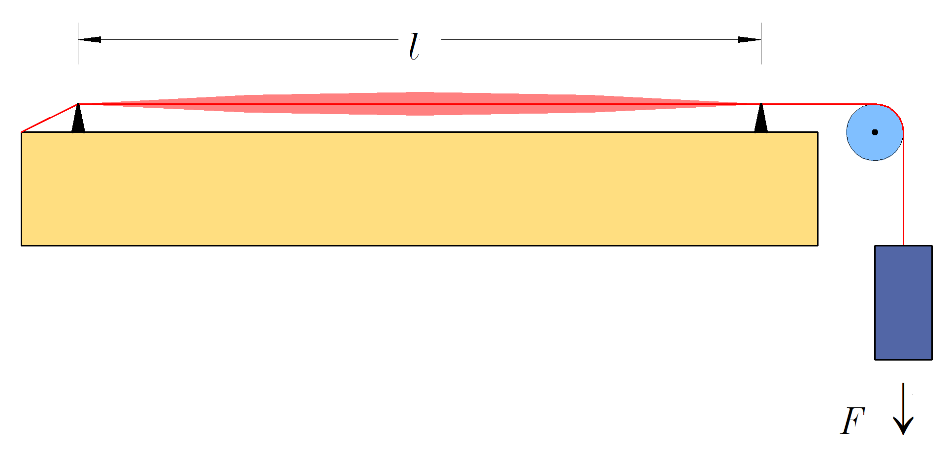 Oscillating string with length l and tension force F.